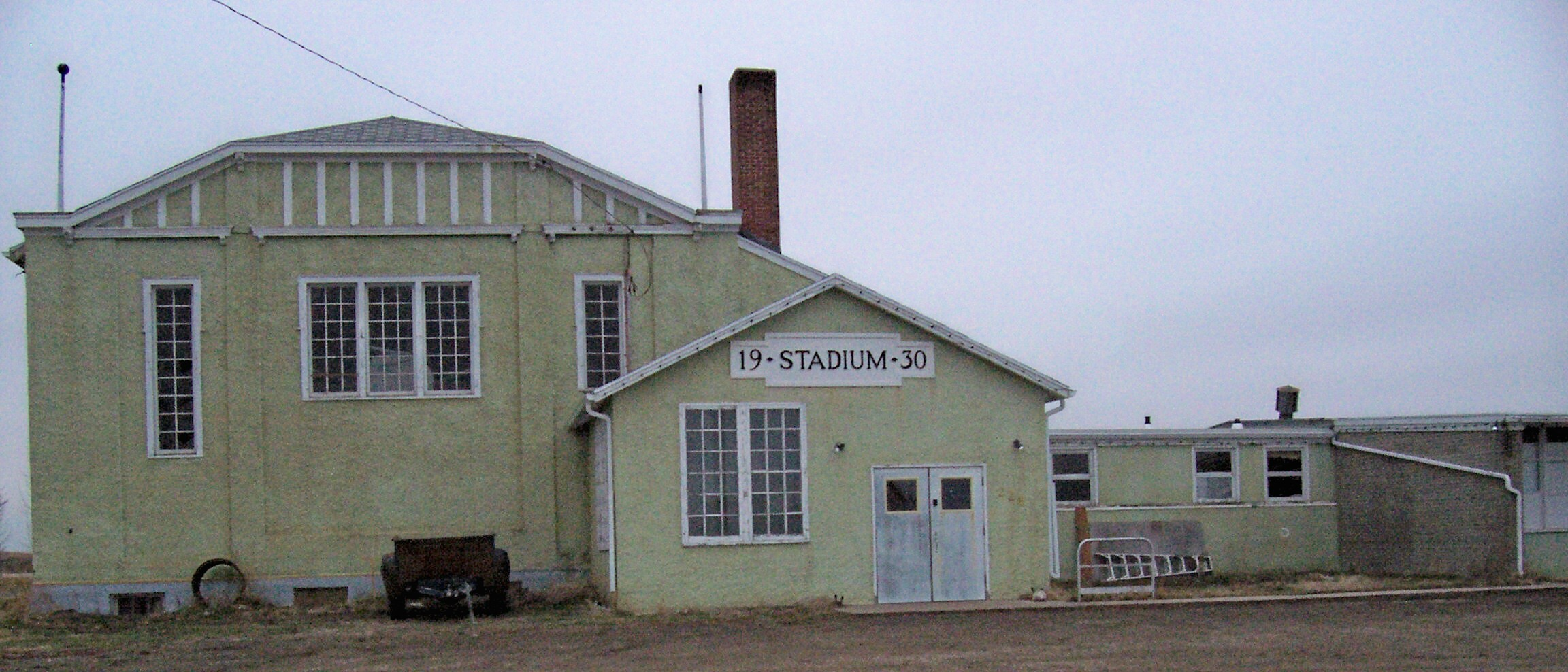 School in New Dayton, Alberta.